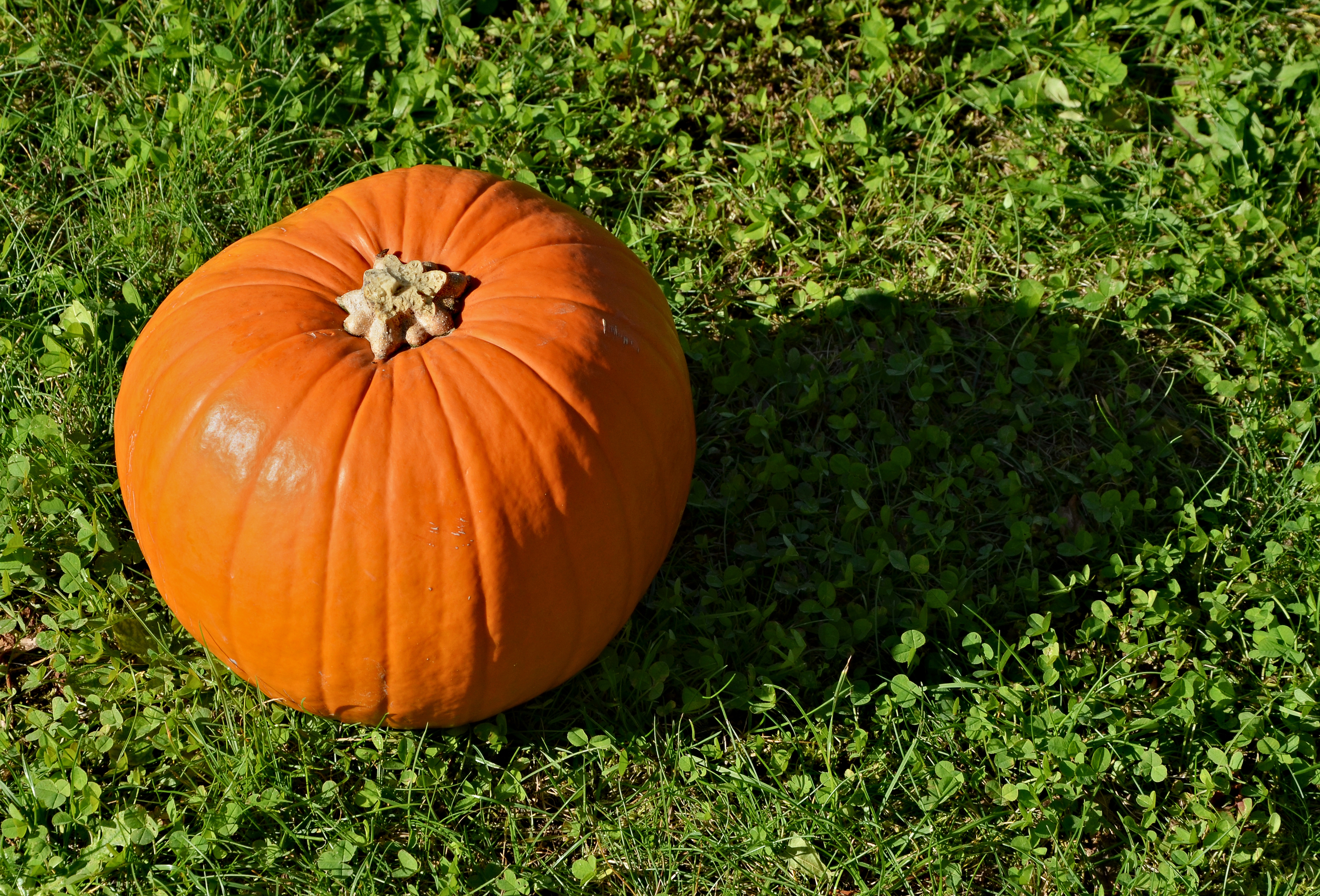 Pumkin (Cucurbita pepo) in a garden, France.